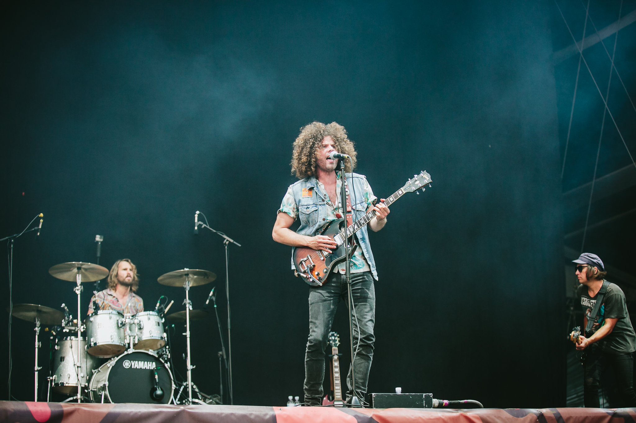 Wolfmother at Deichbrand Festival 2018